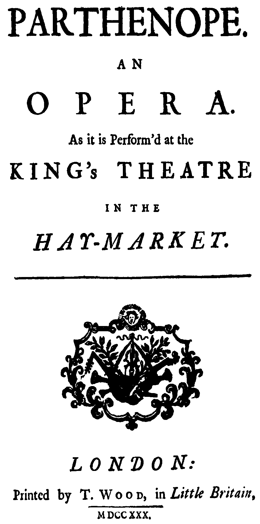 Georg Friedrich Händel - Partenope - title page of the libretto - London 1730